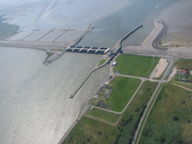 Storm Surge Barrier on the River Eider in the German state of Schleswig-Holstein